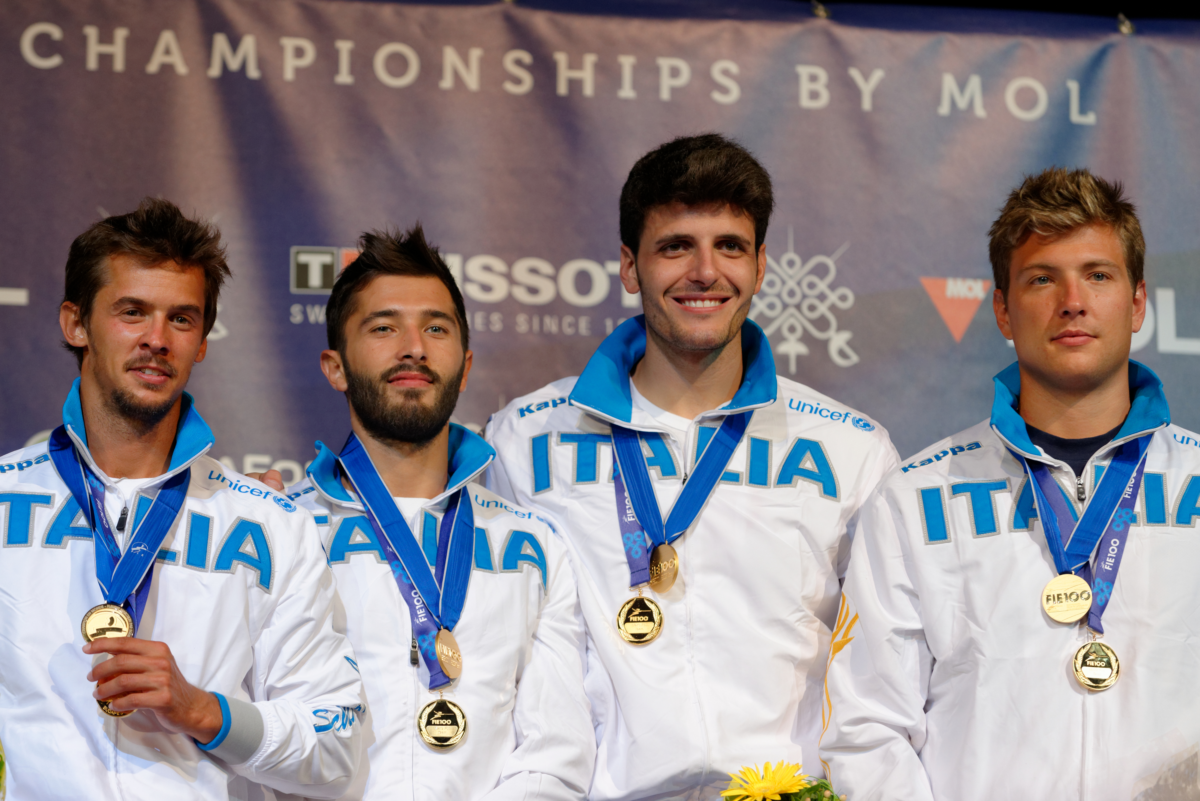 Italy's men foil team (from left to right, Andrea Baldini, Giorgio Avola, Andrea Cassarà and Valerio Aspromonte) stand on the podium of the 2013 World Fencing Championships 2013 at Syma Hall in Budapest, 12 August 2013.